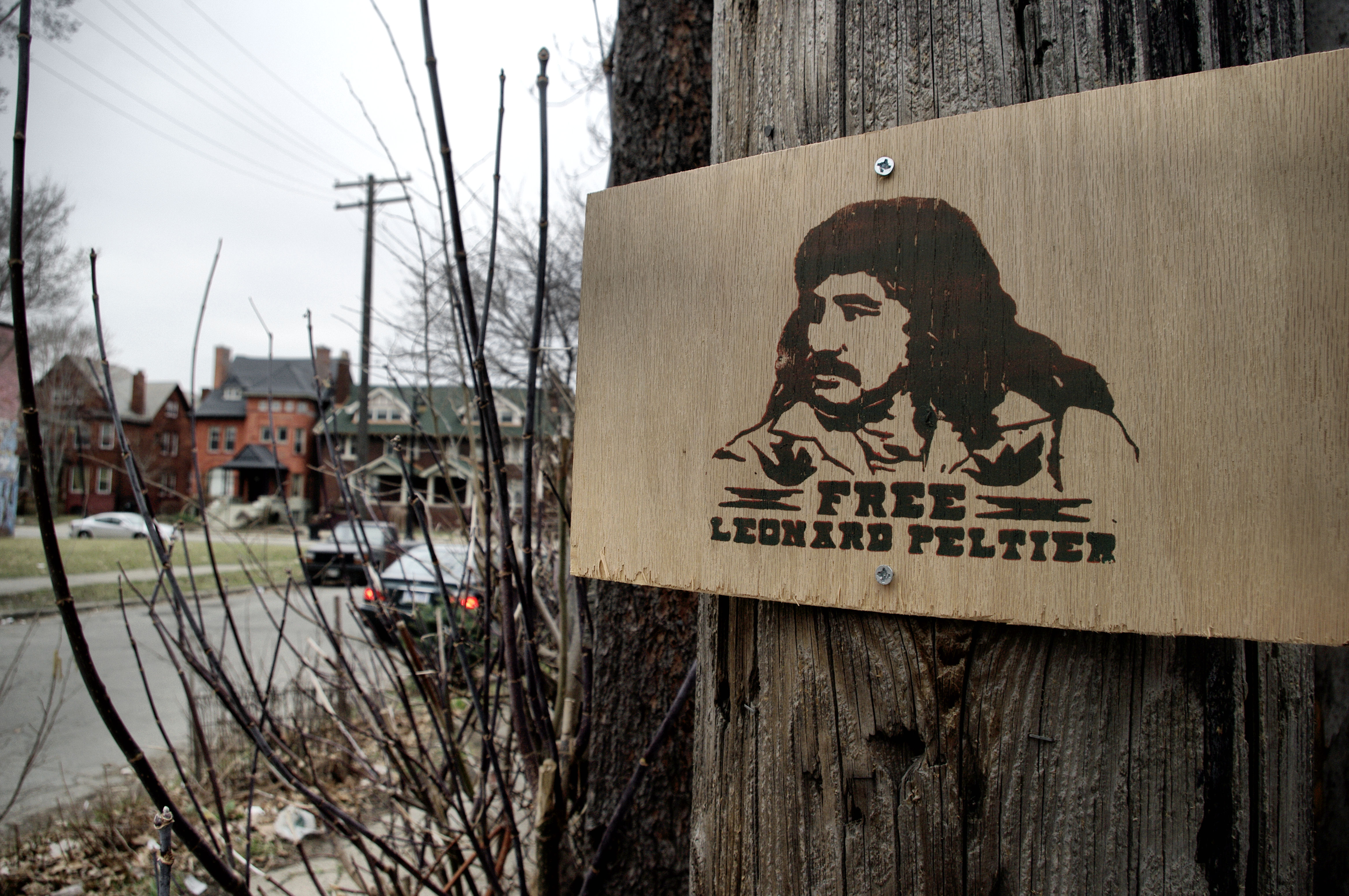 'free LEONARD PELTIER' / Trumbullplex (Anarchist housing collective) / Detroit, Michigan / March 2009